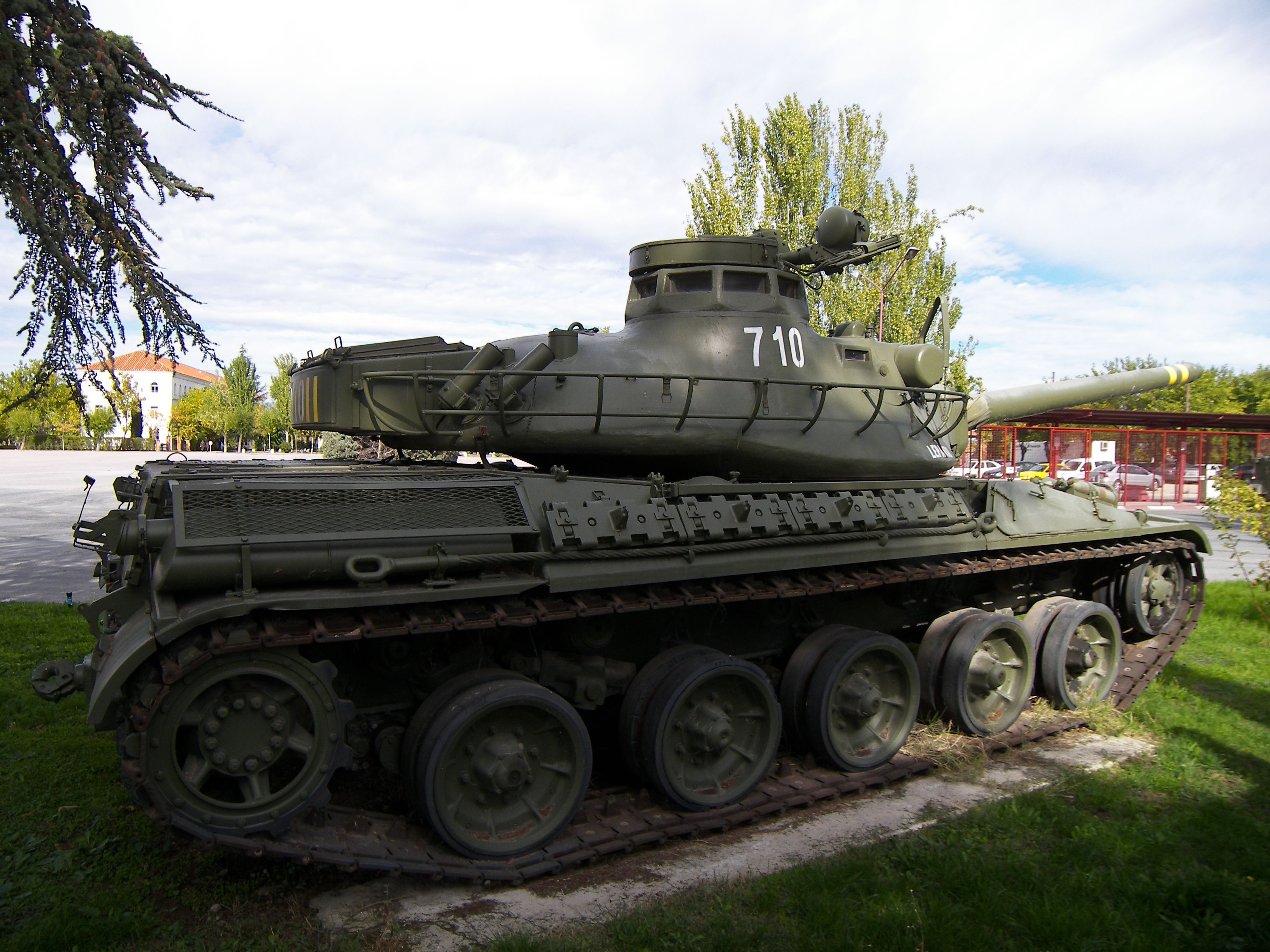 AMX-30E at the Museum of Armored Vehicles, at El Goloso, Spain.